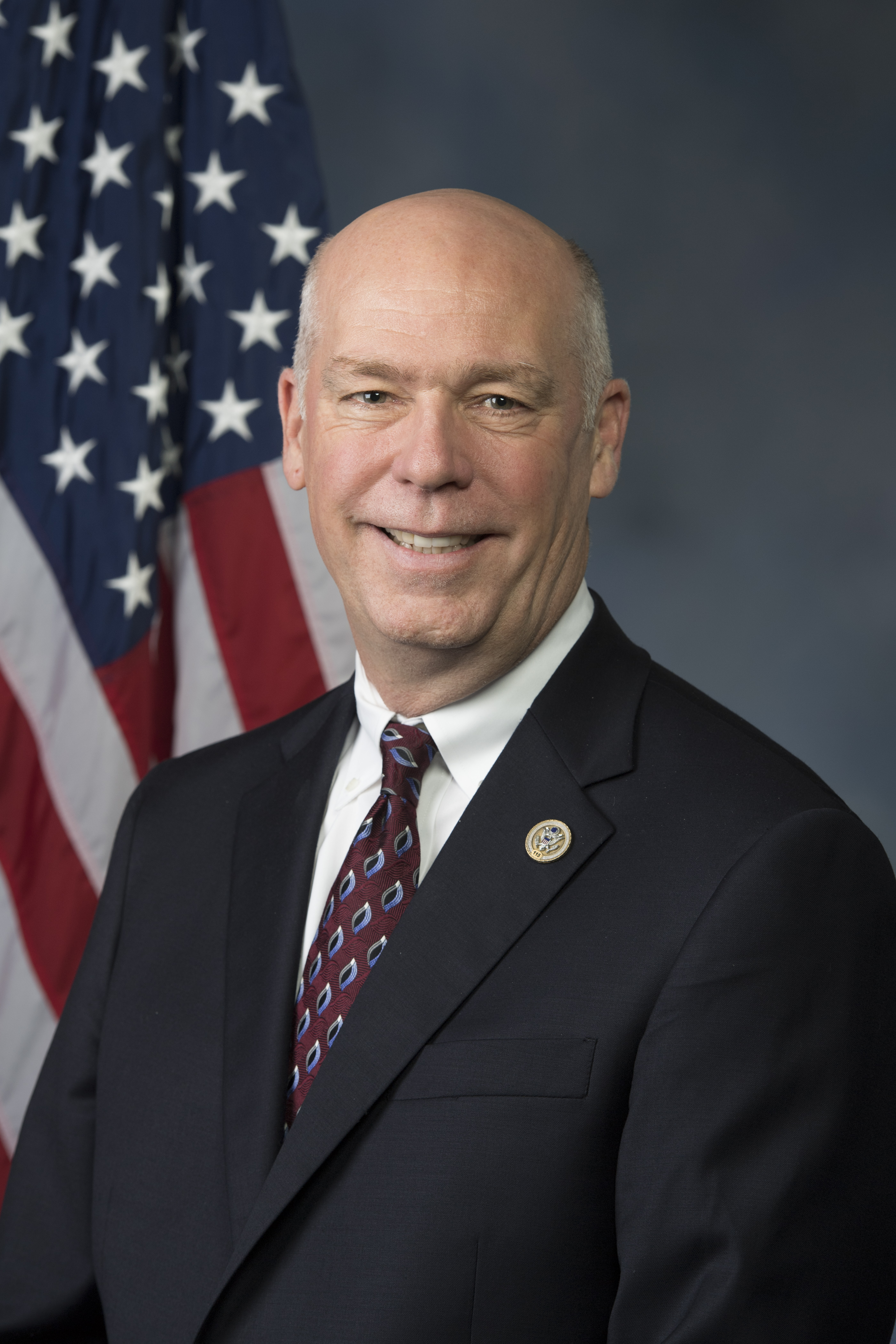 Greg Gianforte's official portrait for the 115th congress.